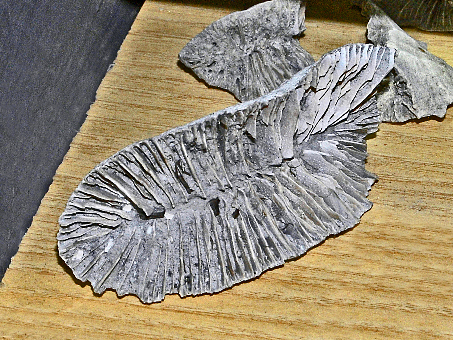 Fossil of Flabellum species. On display at Museo Paleontologico Lai, Ceriale, Savona, Italy